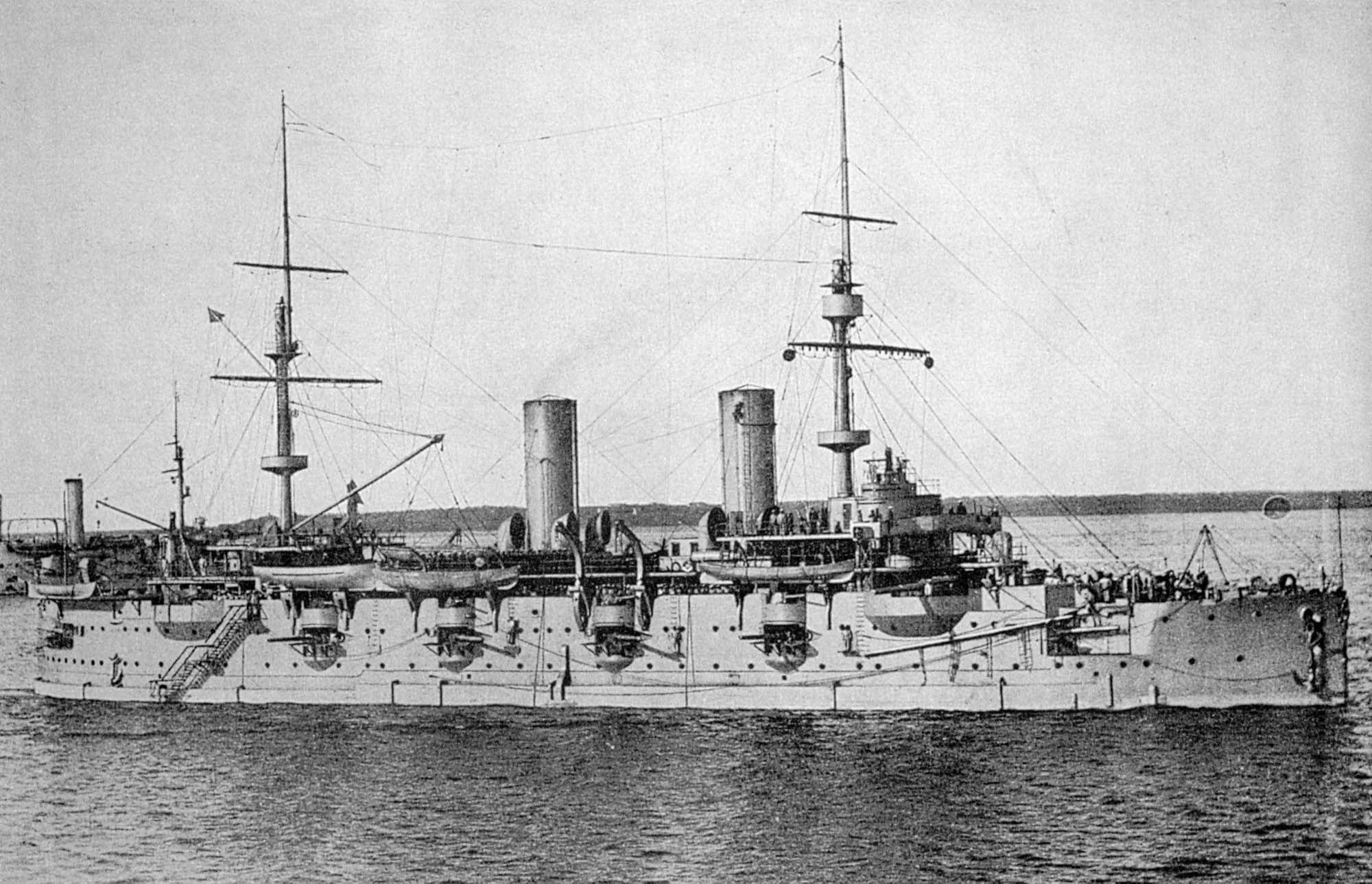 Imperial Russian gun-training ship Petr Velikiy in Reval, 1908-1912.